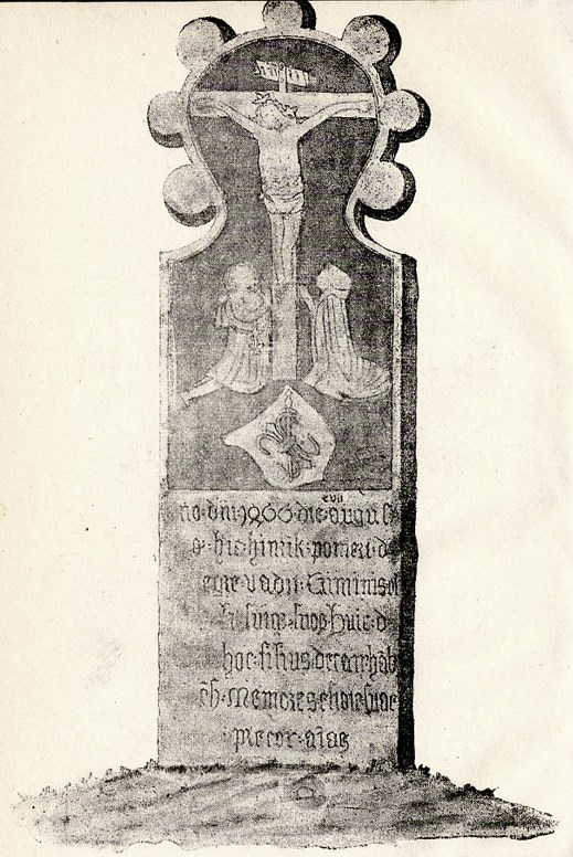 Drawing of the Pomertstein in 1892, scan from Archiv des Vereins für die Geschichte des Herzogthums Lauenburg 1892, frontispiece